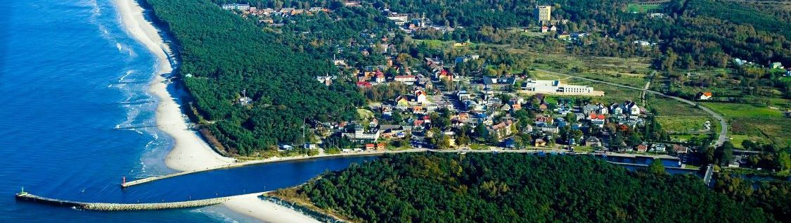 Panorama of bird's-eye view on East side of Mrzeżyno and seaport, (Poland)